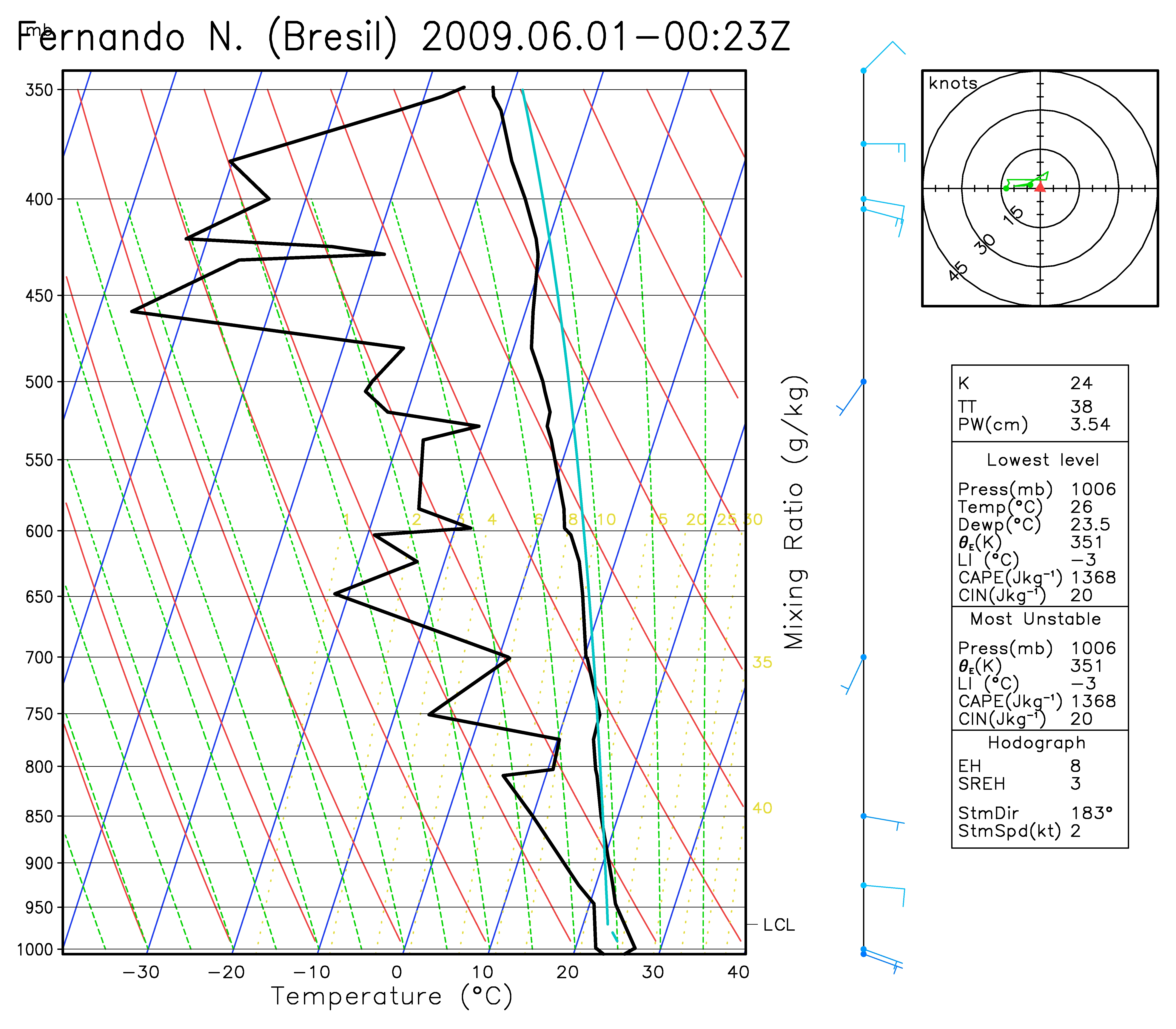 SkewT diagram at Fernando de Noronha (Brazil) on 1st June 2009 close the crash site of flight AF447. Diagram created with grADS using public data from NOAA.